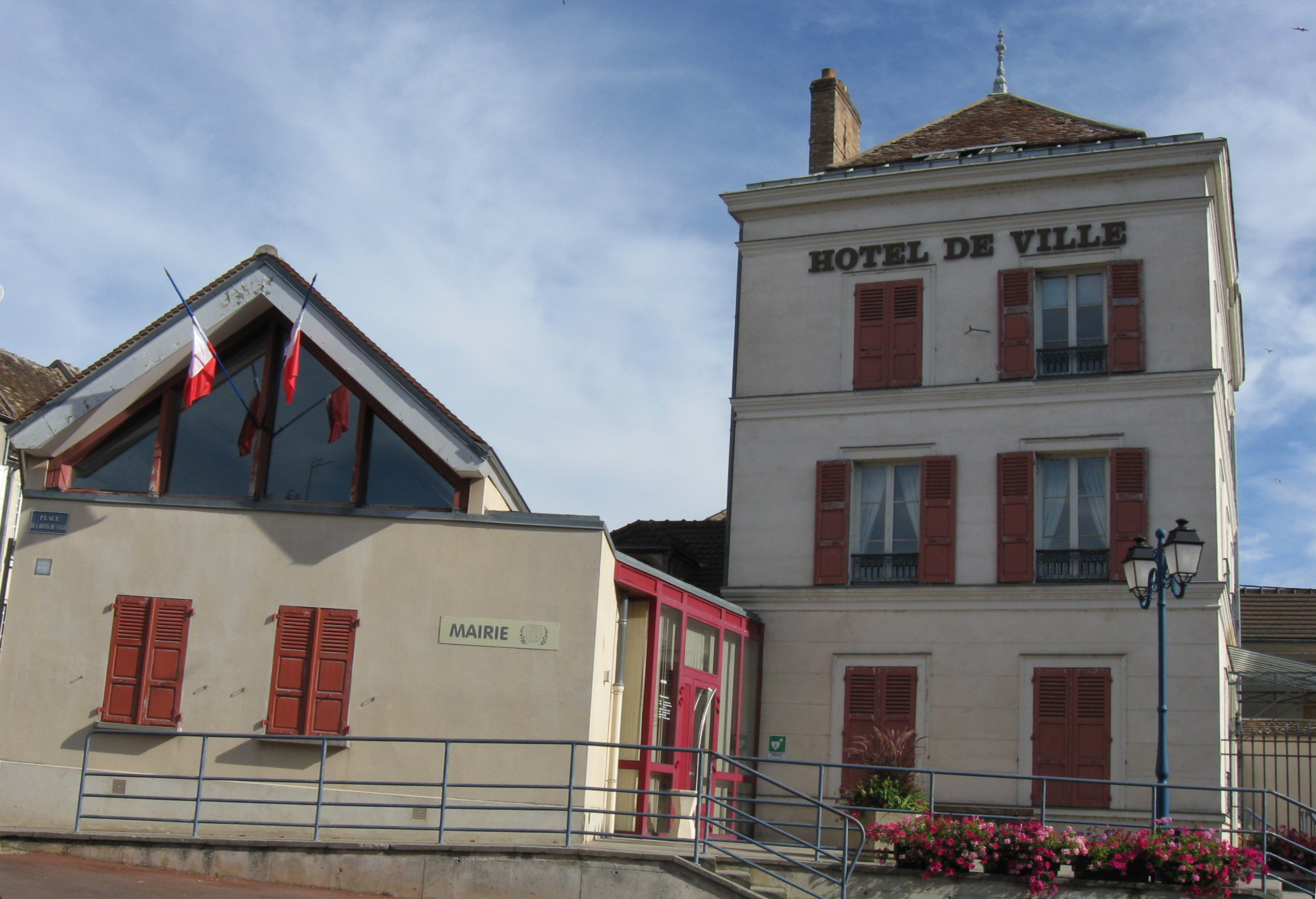 Villeneuve-la-Guyard. town hall. (Yonne department, Bourgogne region).